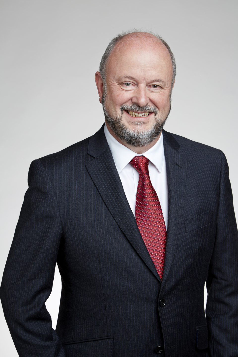 Willam I. F. David FRS is Professor of Materials Chemistry in the Department of Chemistry at the University of Oxford, an STFC Senior Fellow at the ISIS neutron source at the Rutherford Appleton Laboratory and a Fellow of St Catherine's College, Oxford. Attribution: The Royal Society